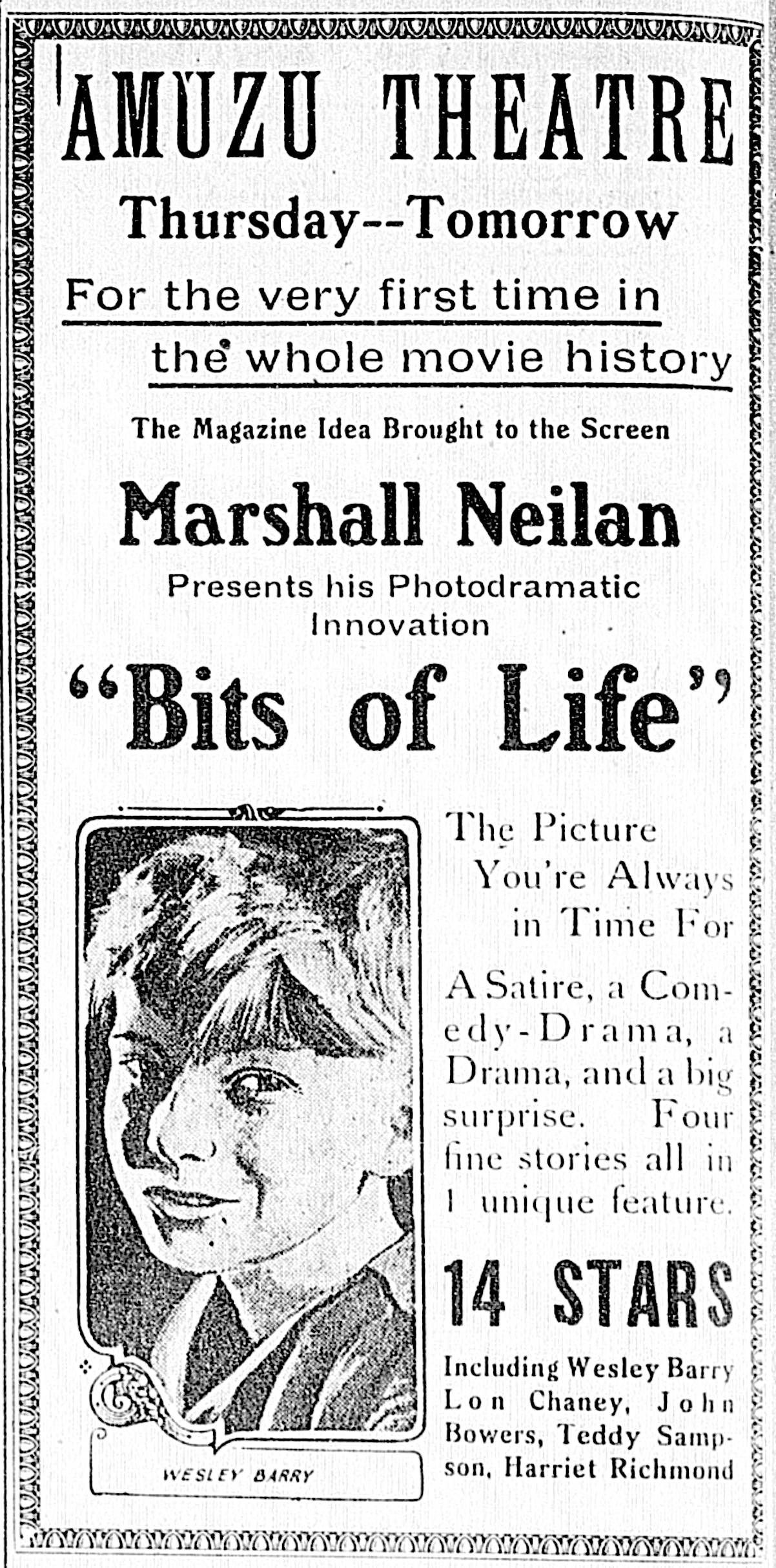 Bits of Life is a 1921 American drama film produced, written, and directed by Marshall Neilan. This is an advert for the film.